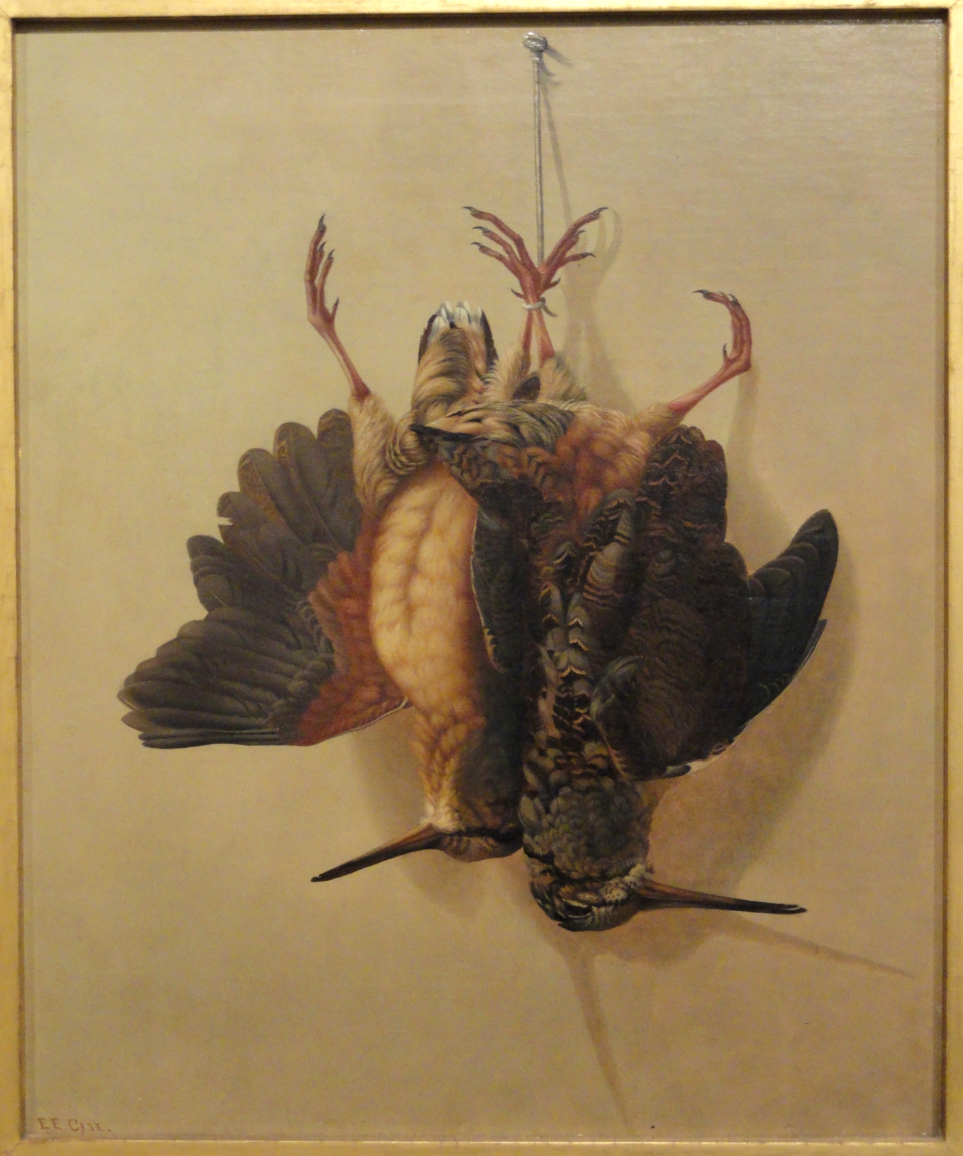 Exhibit in the Museum of Fine Arts, Springfield, Massachusetts, USA.